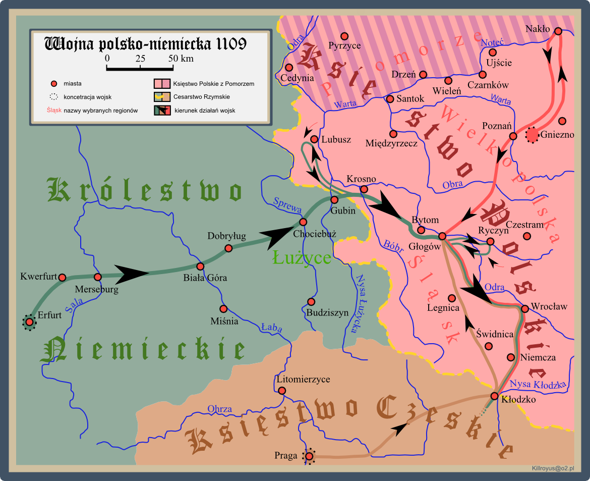 Map showing a Polish-German war from 1109.